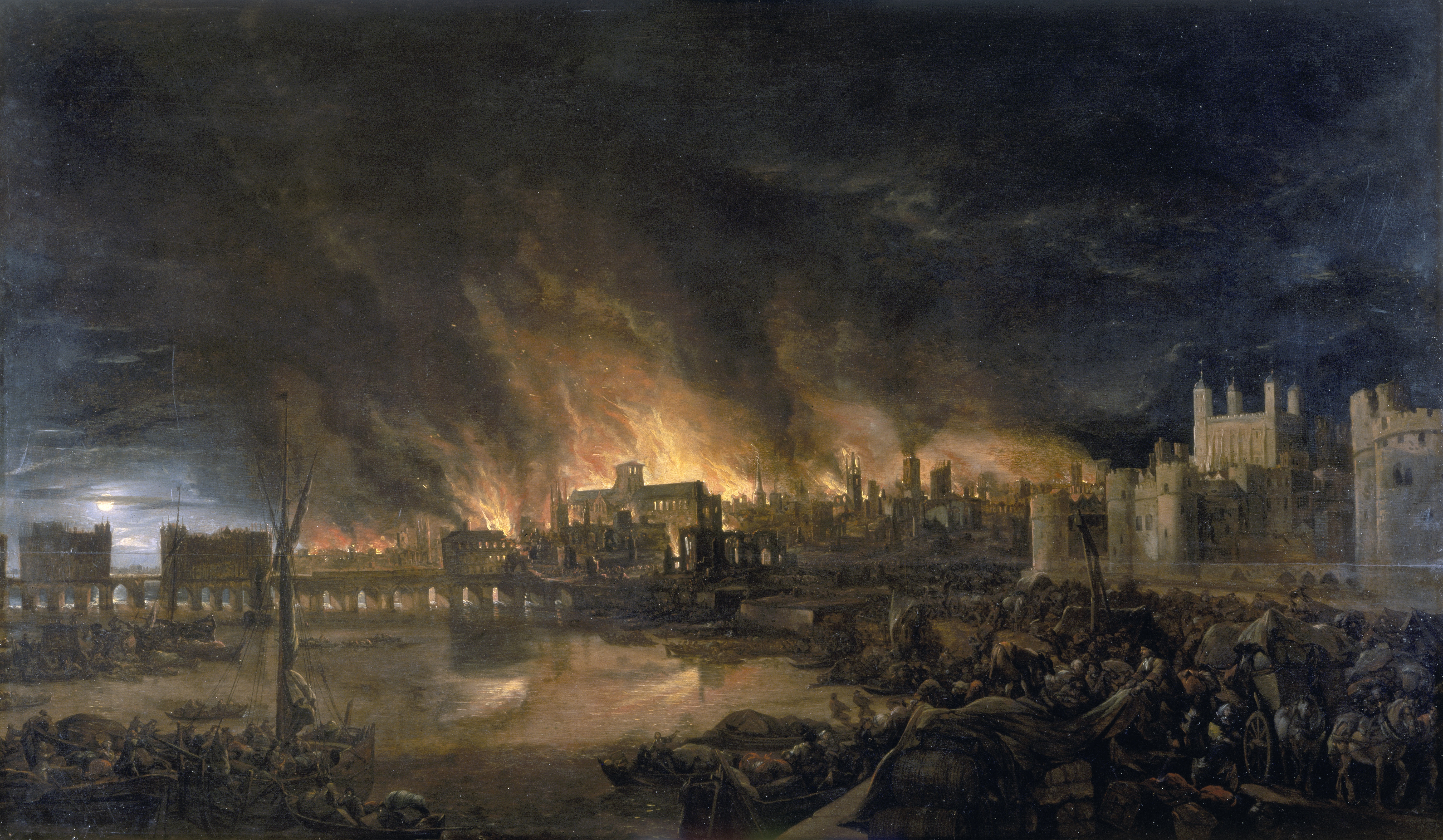 "This painting shows the great fire of London as seen from a boat in vicinity of Tower Wharf. The painting depicts Old London Bridge, various houses, a drawbridge and wooden parapet, the churches of St Dunstan-in-the-West and St Bride's, All Hallow's the Great, Old St Paul's, St Magnus the Martyr, St Lawrence Pountney, St Mary-le-Bow, St Dunstan-in-the East and Tower of London. The painting is in the [style] of the Dutch School and is not dated or signed."